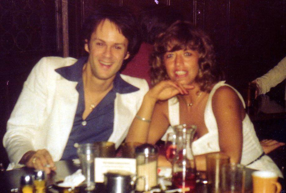 Lars Jacob & Barbro "Lill-Babs" Svensson, as released by image creator Lars Jacob ProdPlace: Old World, 8782 Sunset Boulevard, Los Angeles, California